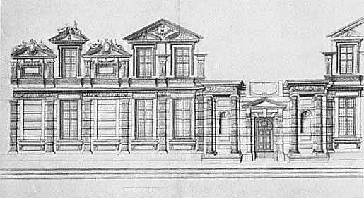 Detail from drawing by Jacques Androuet du Cerceau of the elevation of the court side of the de l'Orme wing of the Tuileries Palace in Paris. From du Cerceau's publication Les plus excellents Bastiments de France.